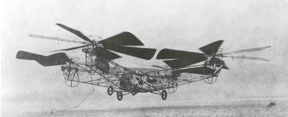 Helicopter designed by George De Bothezat, making descent at McCook Field after remaining airborne for two minutes, 45 seconds.